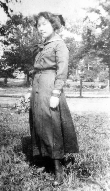 1910 Soong May-ling student in US.